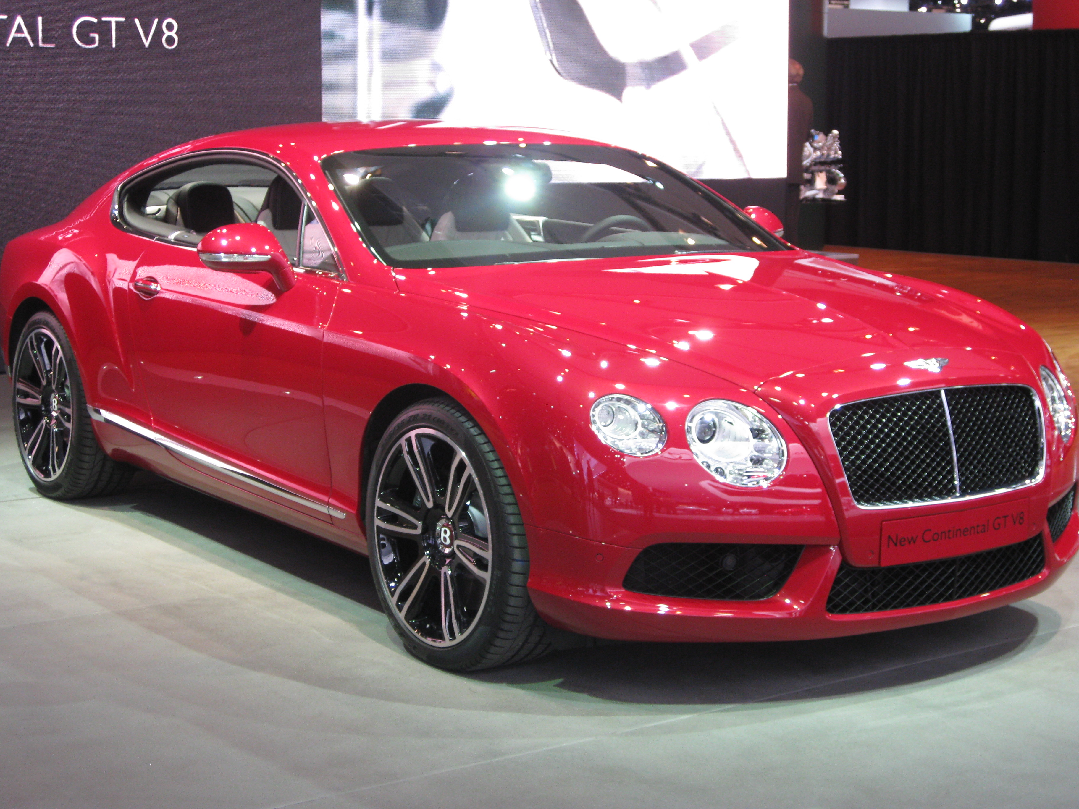 For more info and images please check